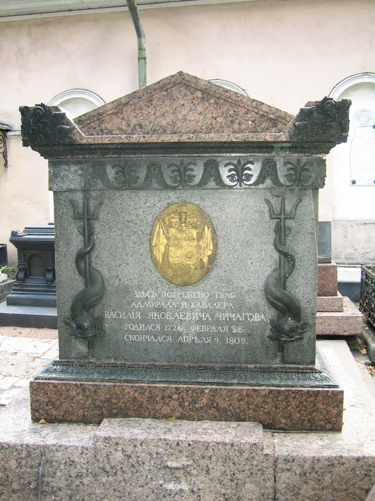 Vasili Chichagov grave in Lazarev Cemetery.